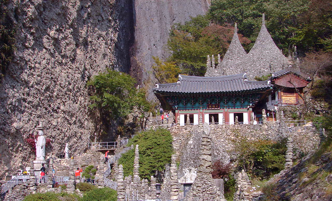 Tapsa (Buddhist Temple) and the Stone Pagodas of Maisan (Hourse Ear Mountain) in Jinan County, North Jeolla Province, South Korea.